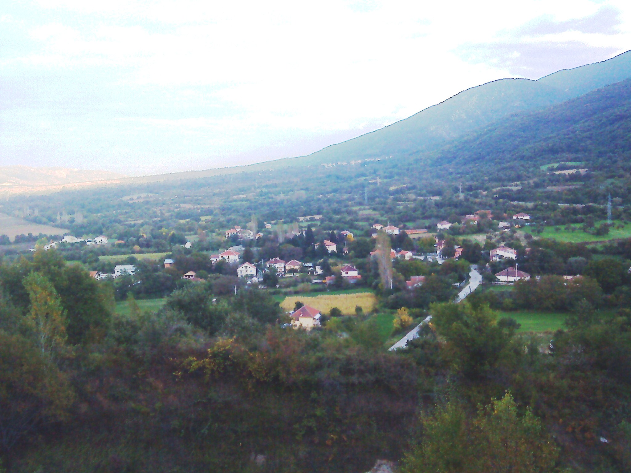 Panorama village Kazani